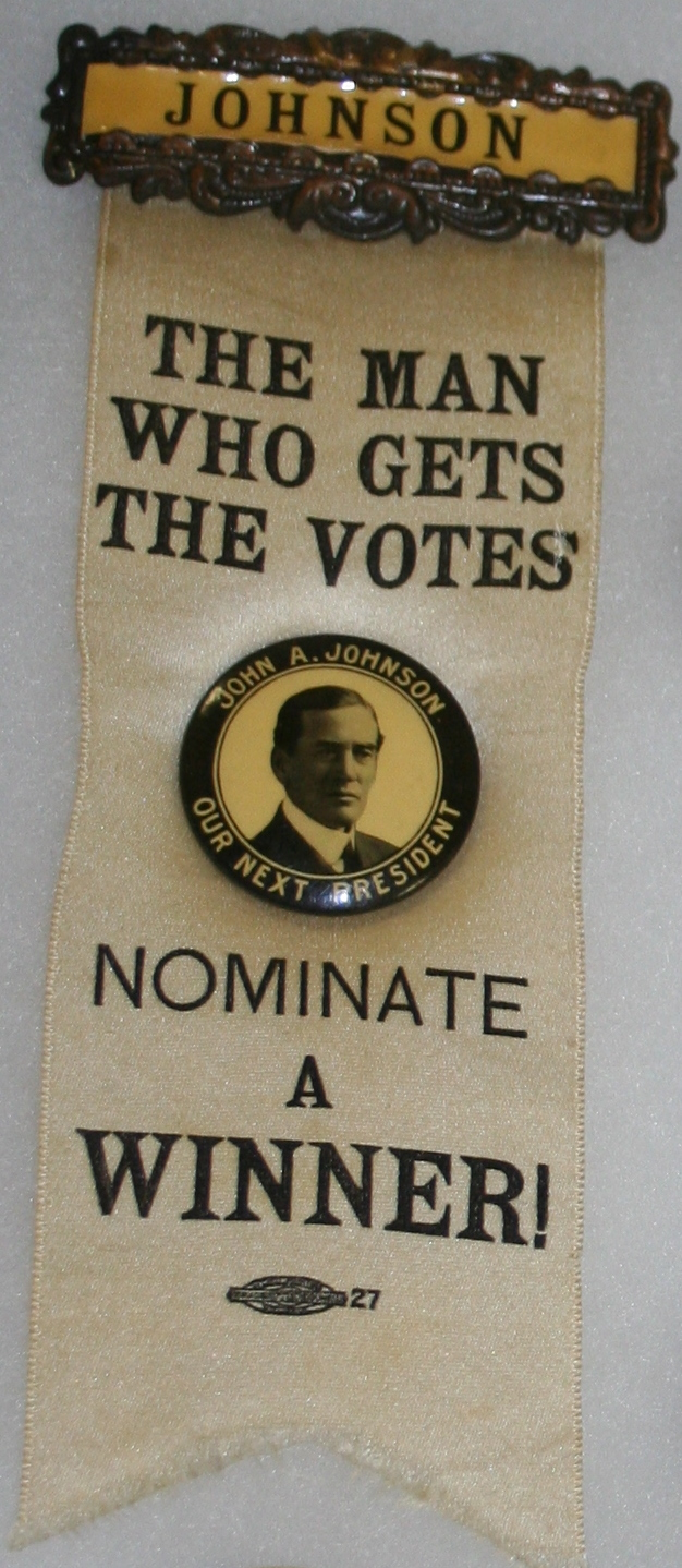 1908 political campaign ribbon and buttons promoting Minnesota Governor John Albert Johnson for President of the United States